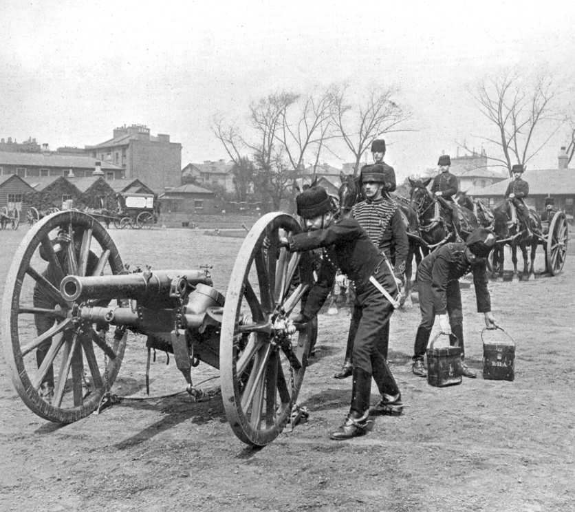 BL 12 pounder 6 cwt field gun - note the drag shoes under the wheels, indicating the gun is in the firing position. Appears to be on a parade ground in UK.